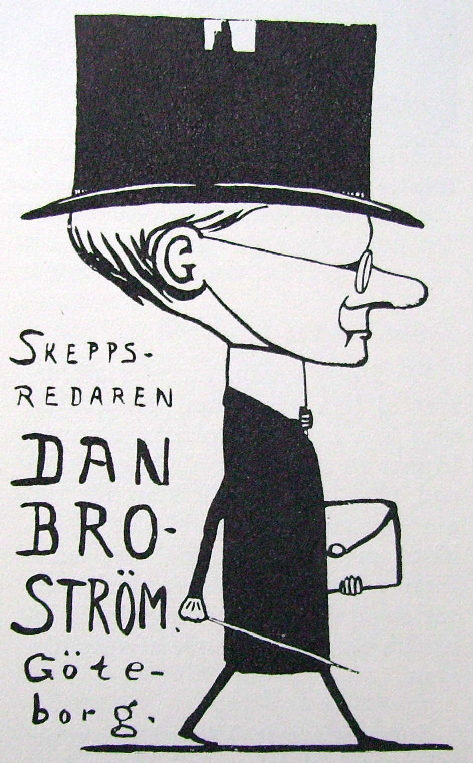 Picture of drawing of Dan Broström, Swedish industrialist and politician